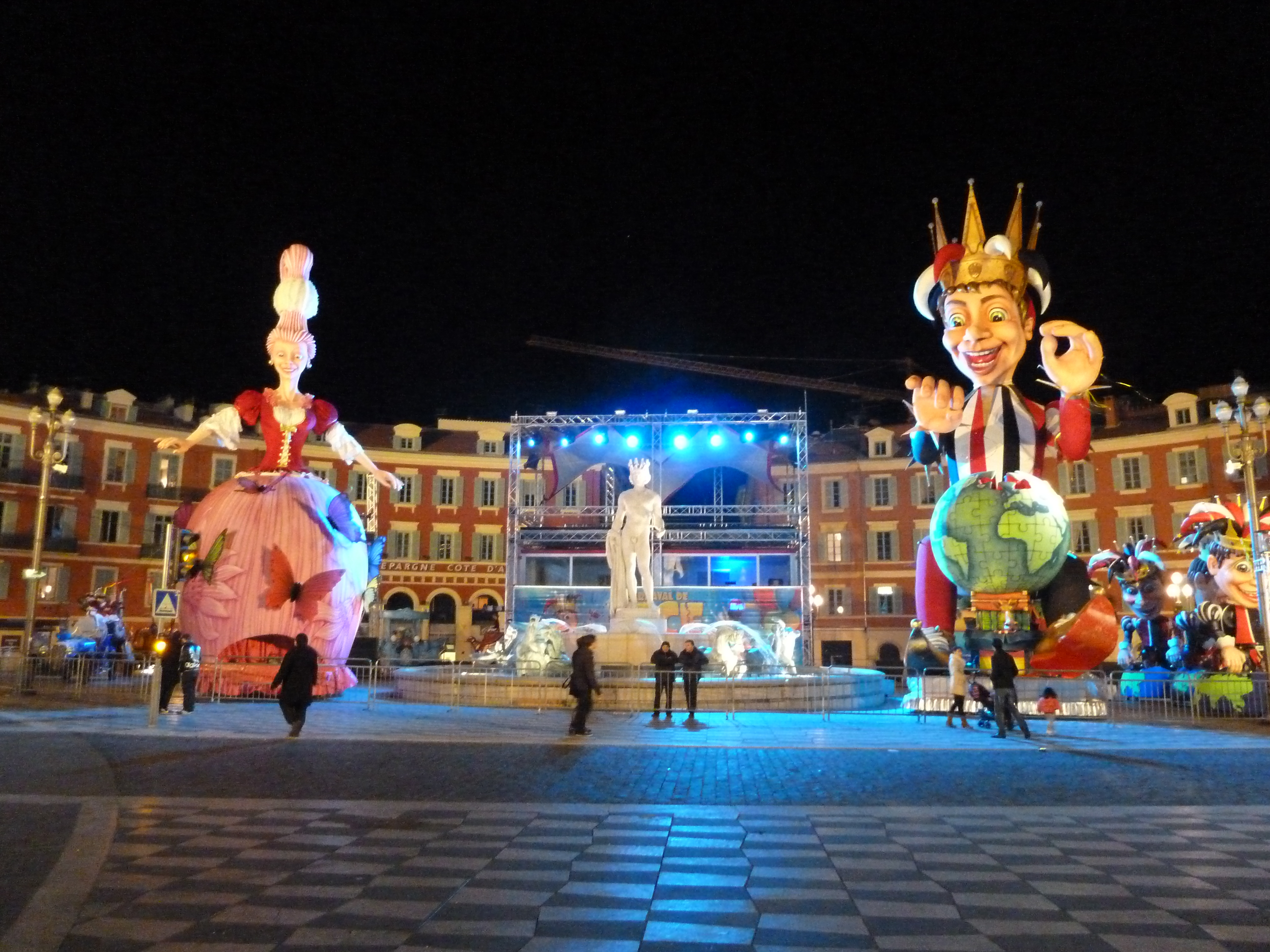 The King and Queen of carnival of Nice (2013) at Masséna place